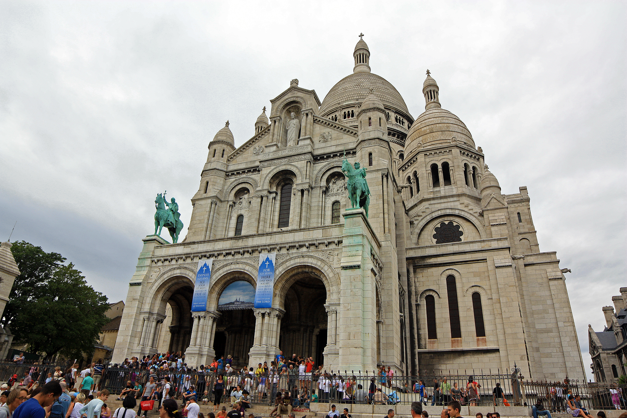 Basilique du Sacré-Cœur, Monmartre, Paris